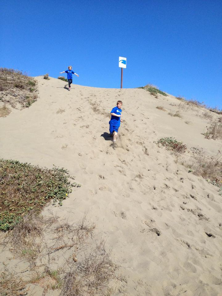 The Let's Move in the Dunes #NPLD event was a success. 40 families participated in the physical and mental challenges at Ma-l'el Dunes, including an agility challenge, waterline tug-o- war, plover relay, math challenge, and shake rattle & roll. Fun was had by all! Photos by BLM California